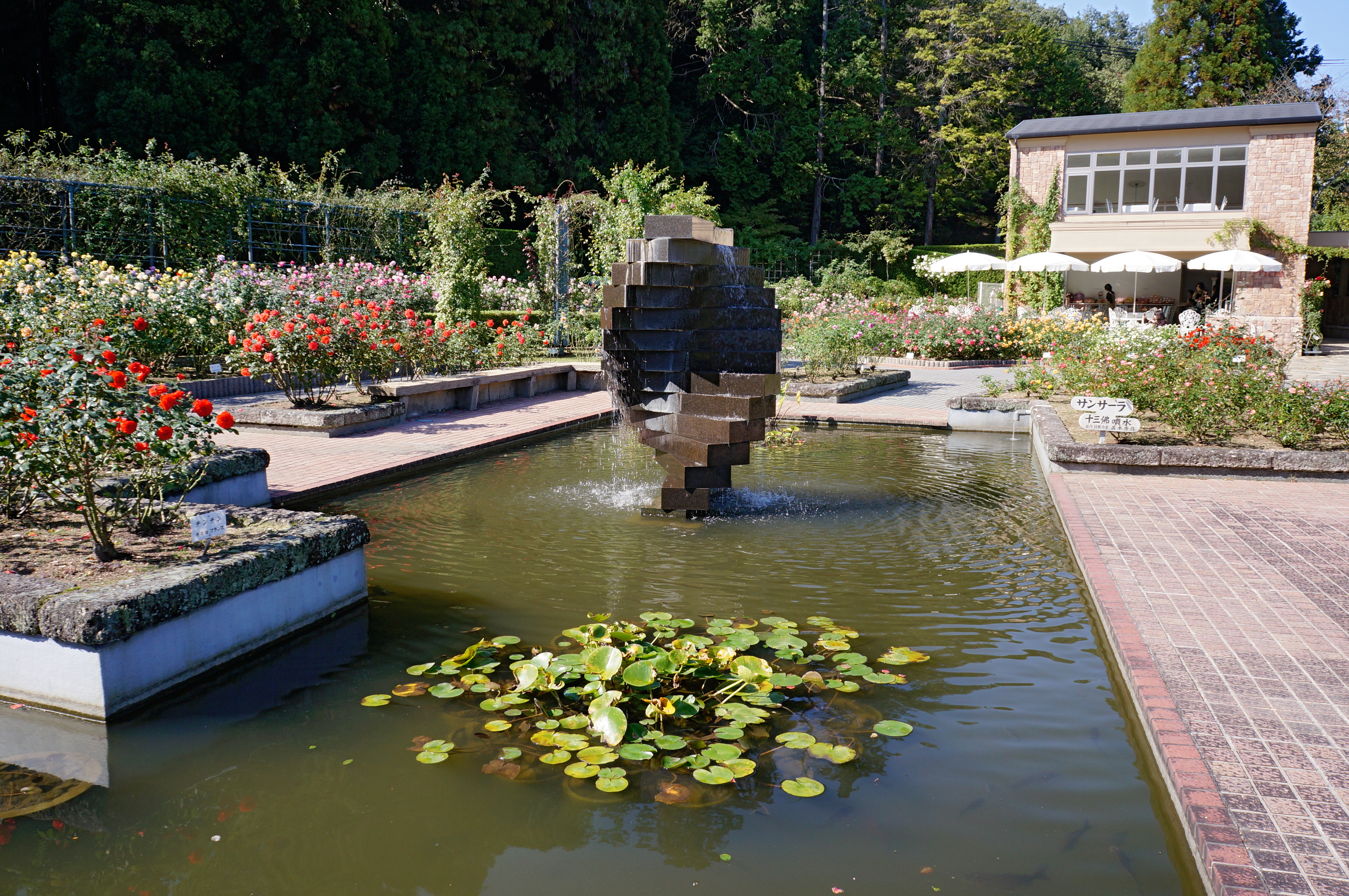 Rose garden of Ryōsen-ji in Nara, Nara prefecture, Japan.